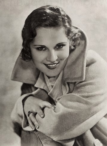 Boots Mallory